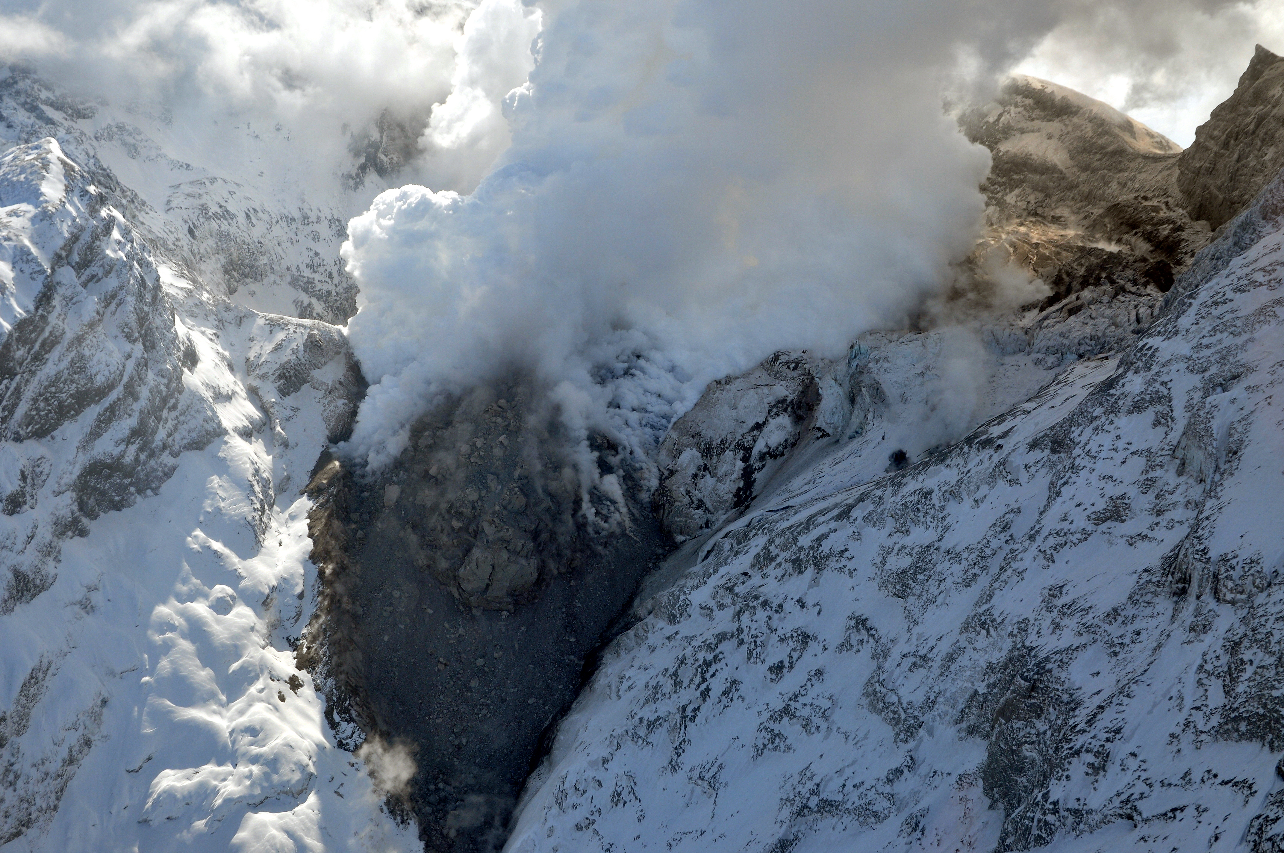 Eruption of Mt Redoubt, Alaska - New lava dome in the summit crater, known since 2009-04-04, with plume. Original Caption: Lava dome on Mt. Redoubt